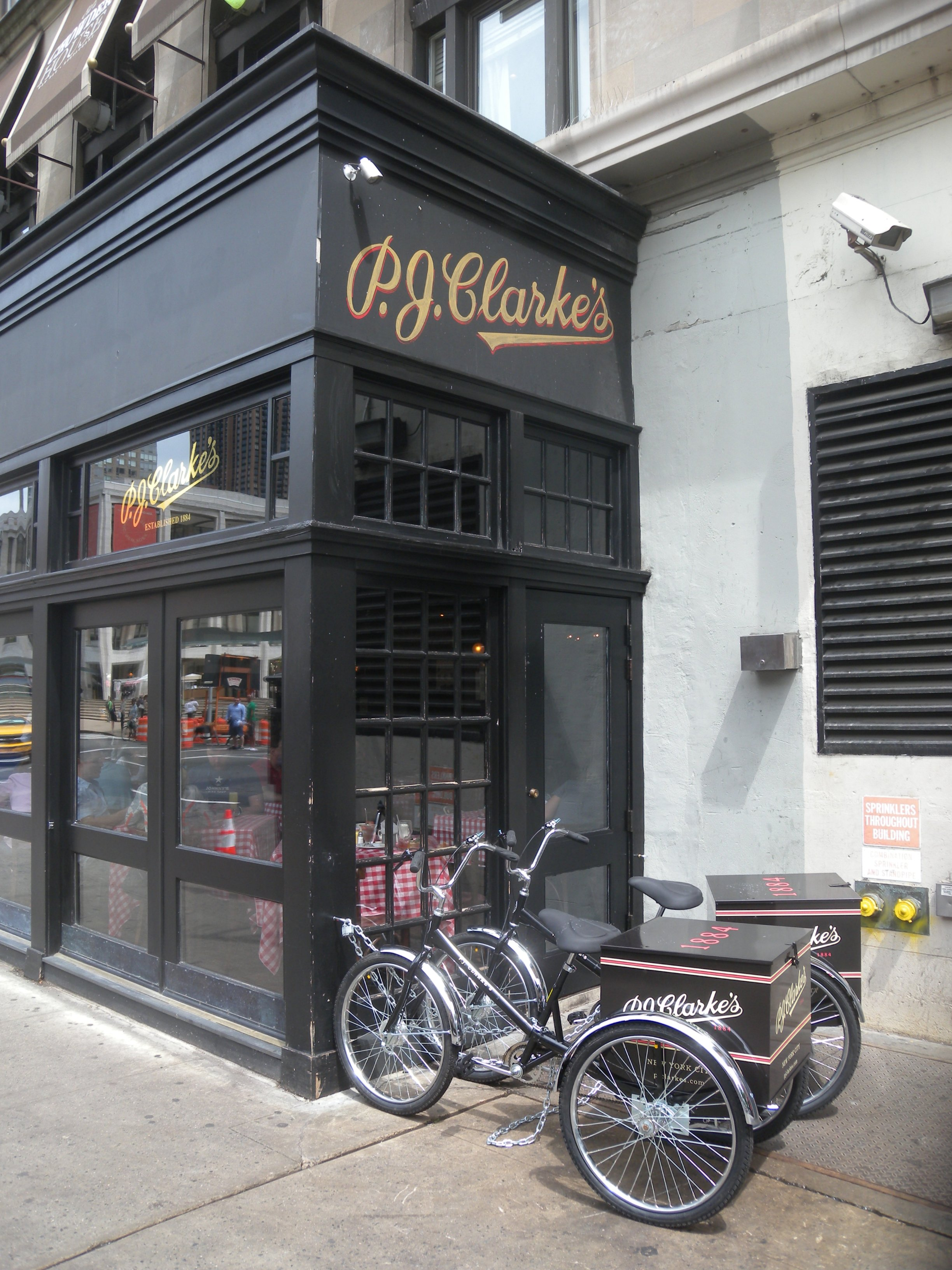 Looking east at delivery trikes on a sunny day.